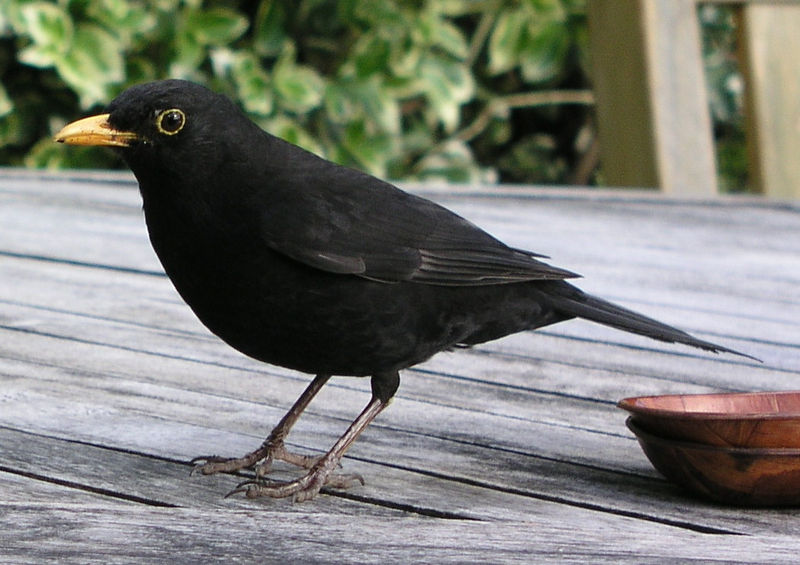 A black bird